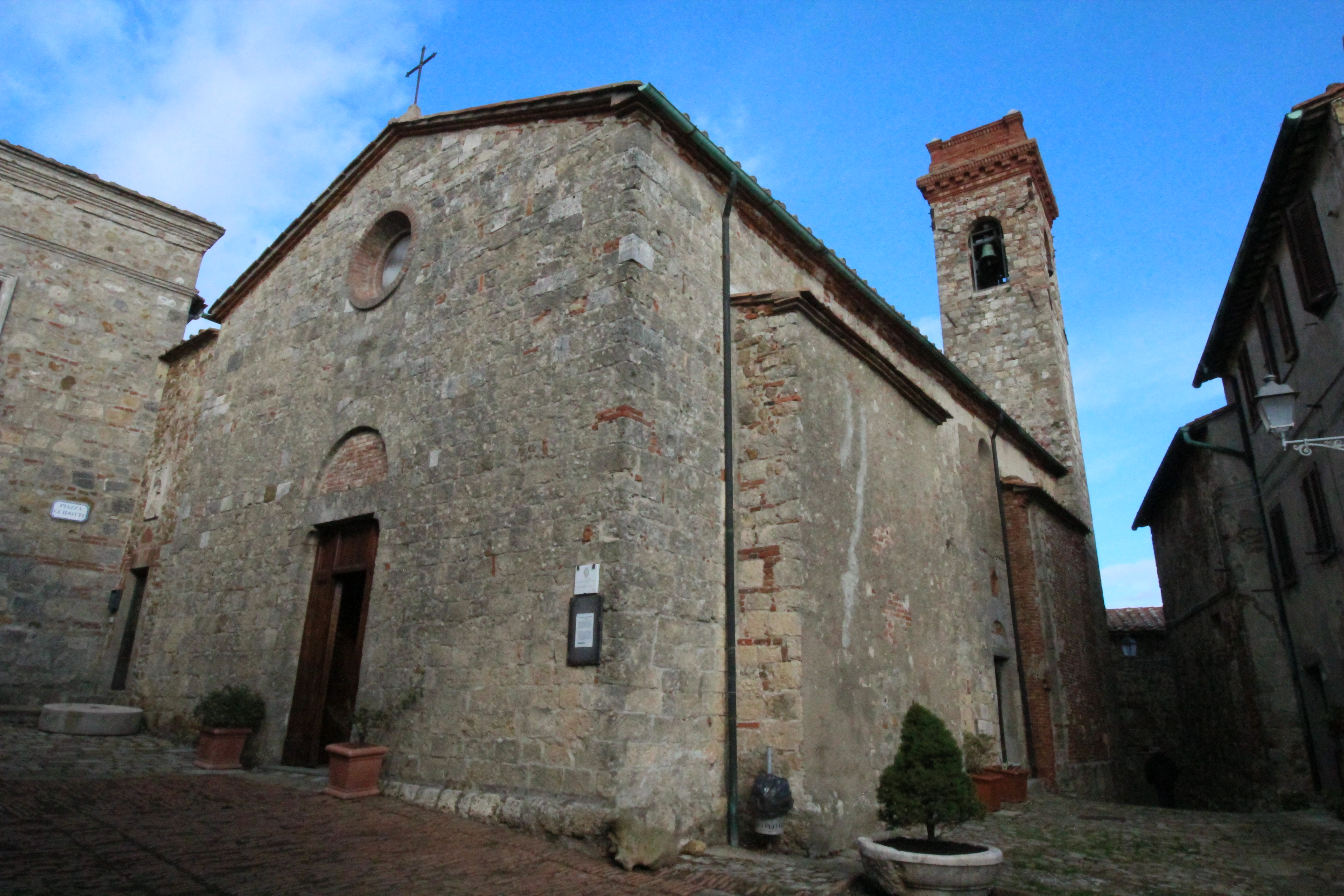 Church of San Michele Arcangelo in Chiusdino, Val di Merse, Province of Siena, Tuscany, Italy